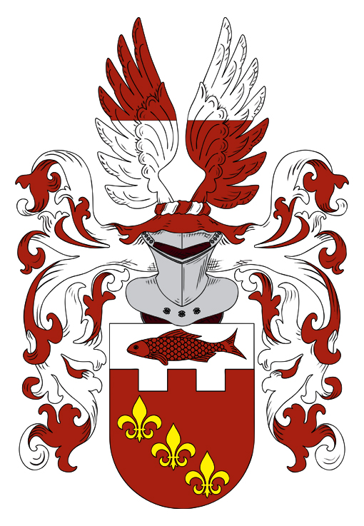 Coats of arms of Ebel Family, Neidenburg, Prussia